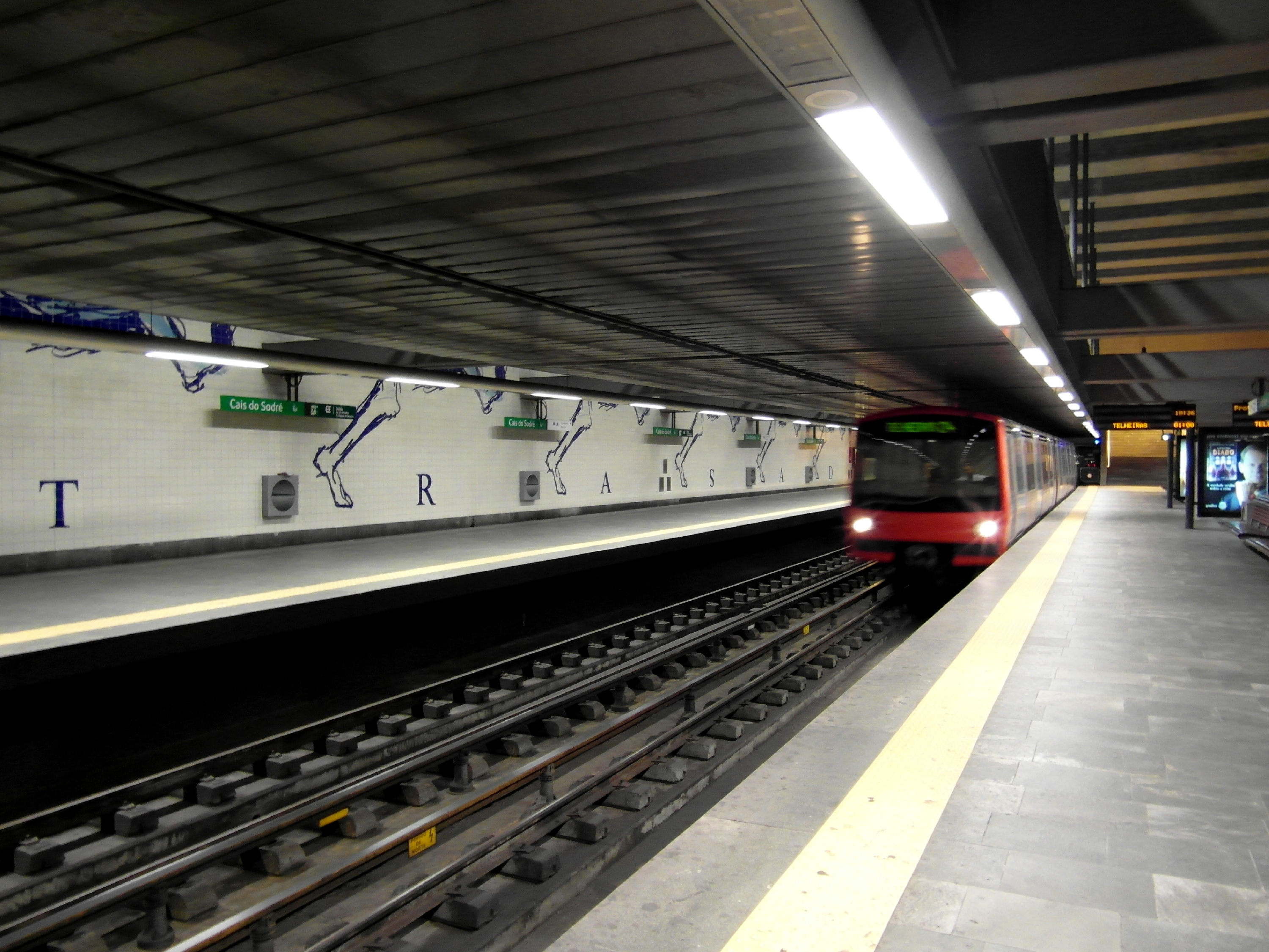 Cais do Sodré underground station, Lisboa, Portugal